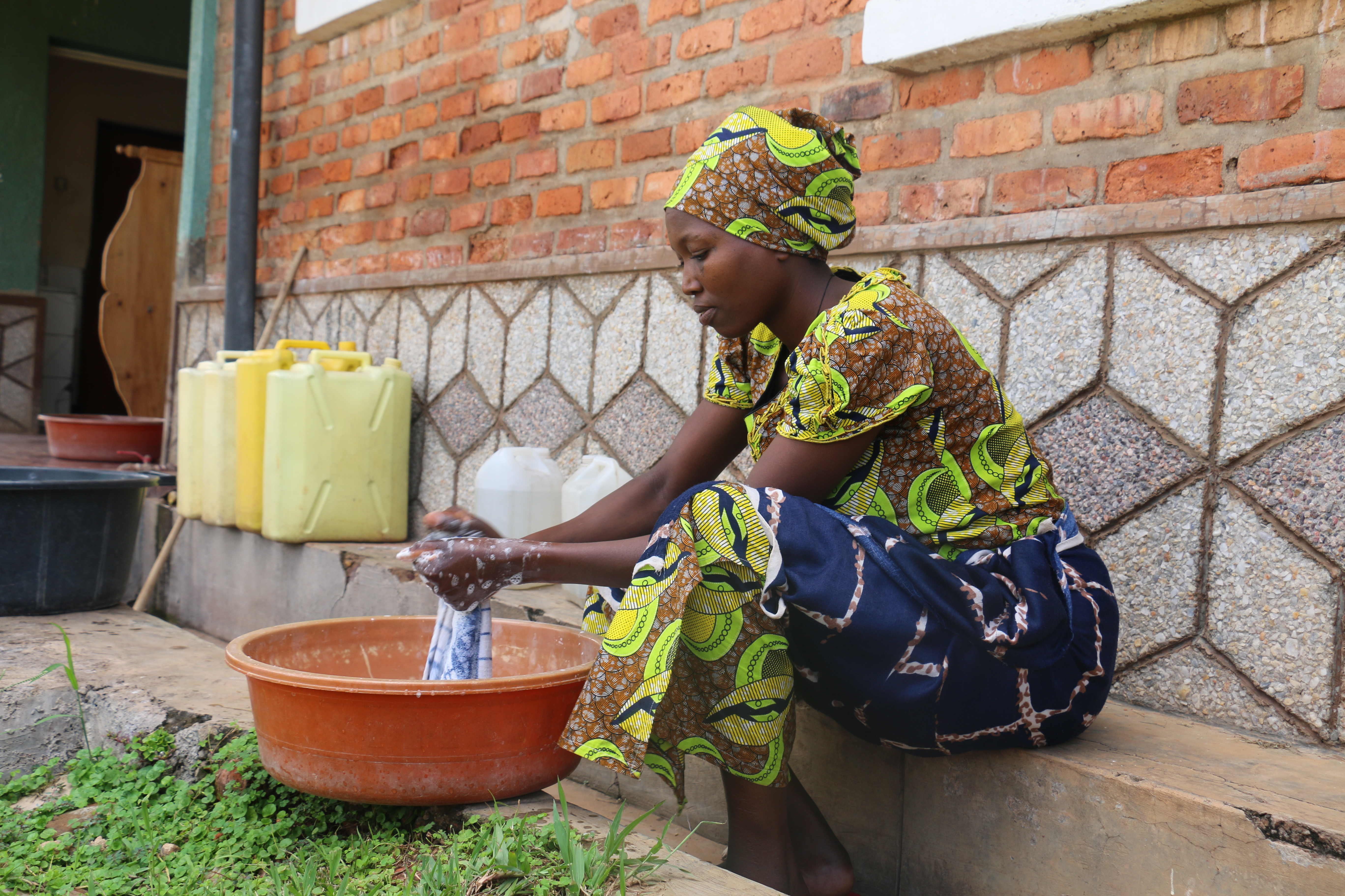 This is an image of "African people at work" from Rwanda